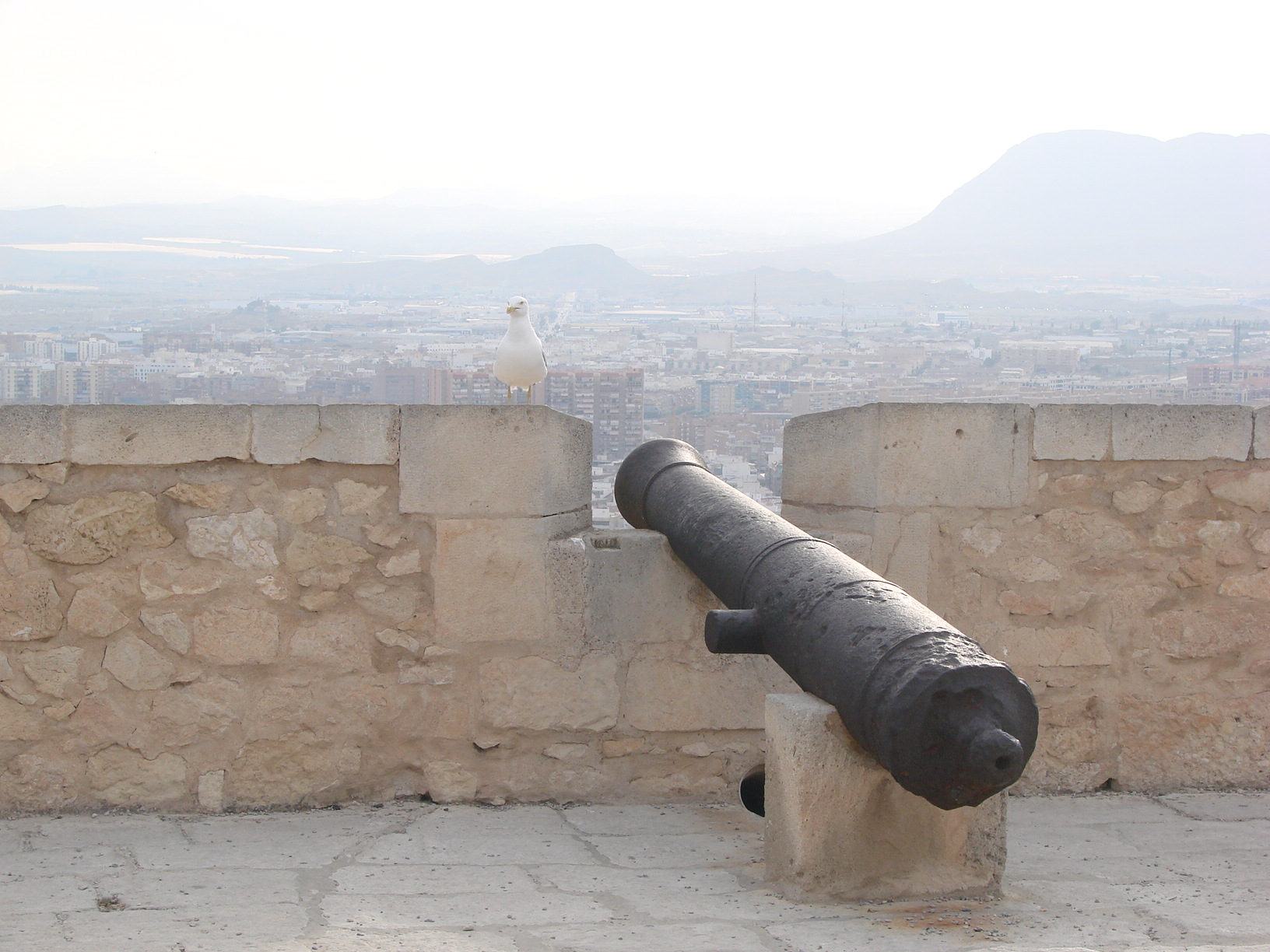 castello